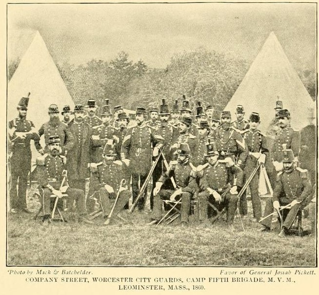 Members of the Worcester City Guards in 1860 during a muster of Massachusetts militia units in Leominster, Massachusetts. They became Company A of the 3rd Massachusetts Battalion of Rifles.